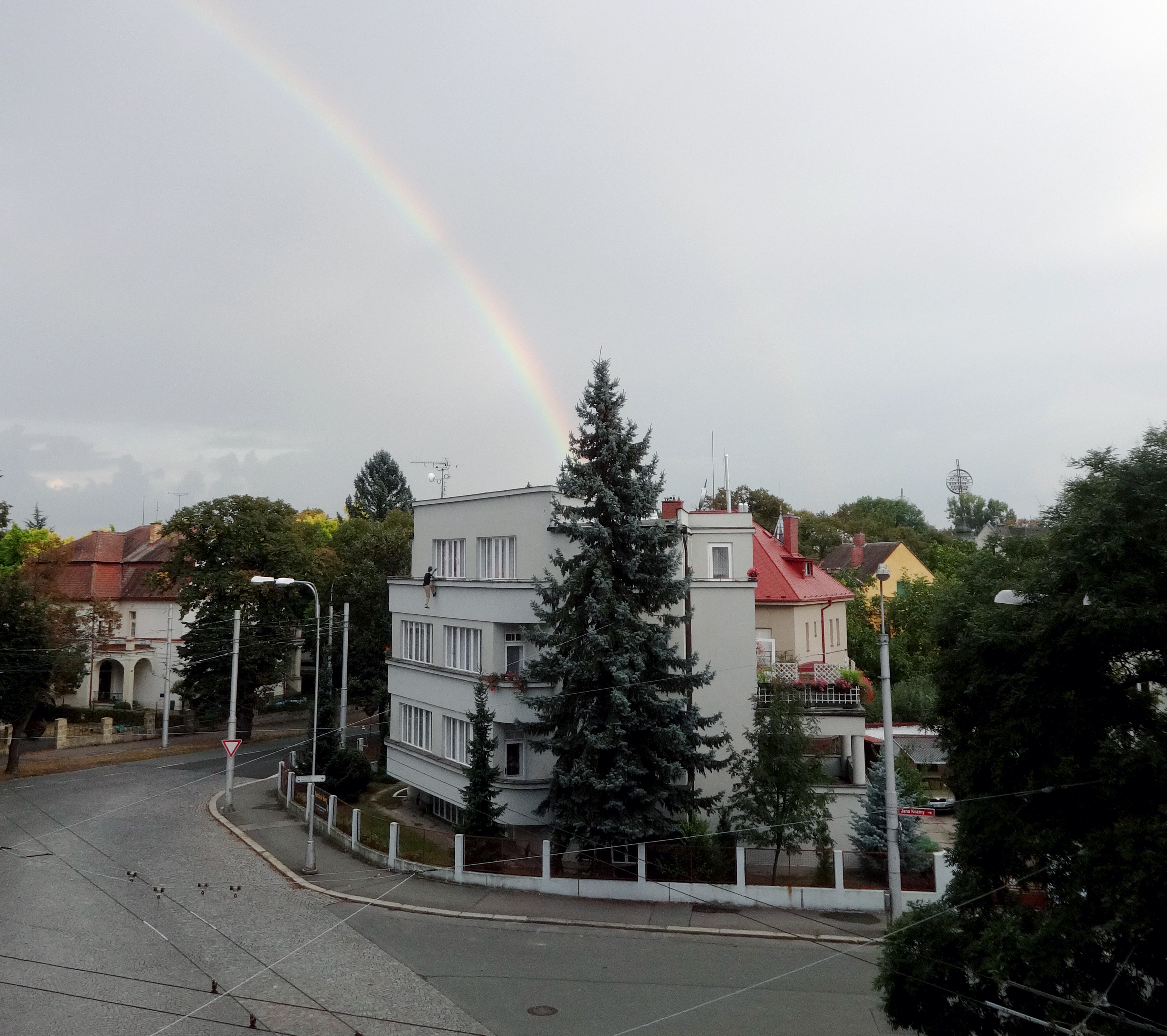 Semi-aerial view of Waldekova Vila, Hradec Králové, designed by František Janda